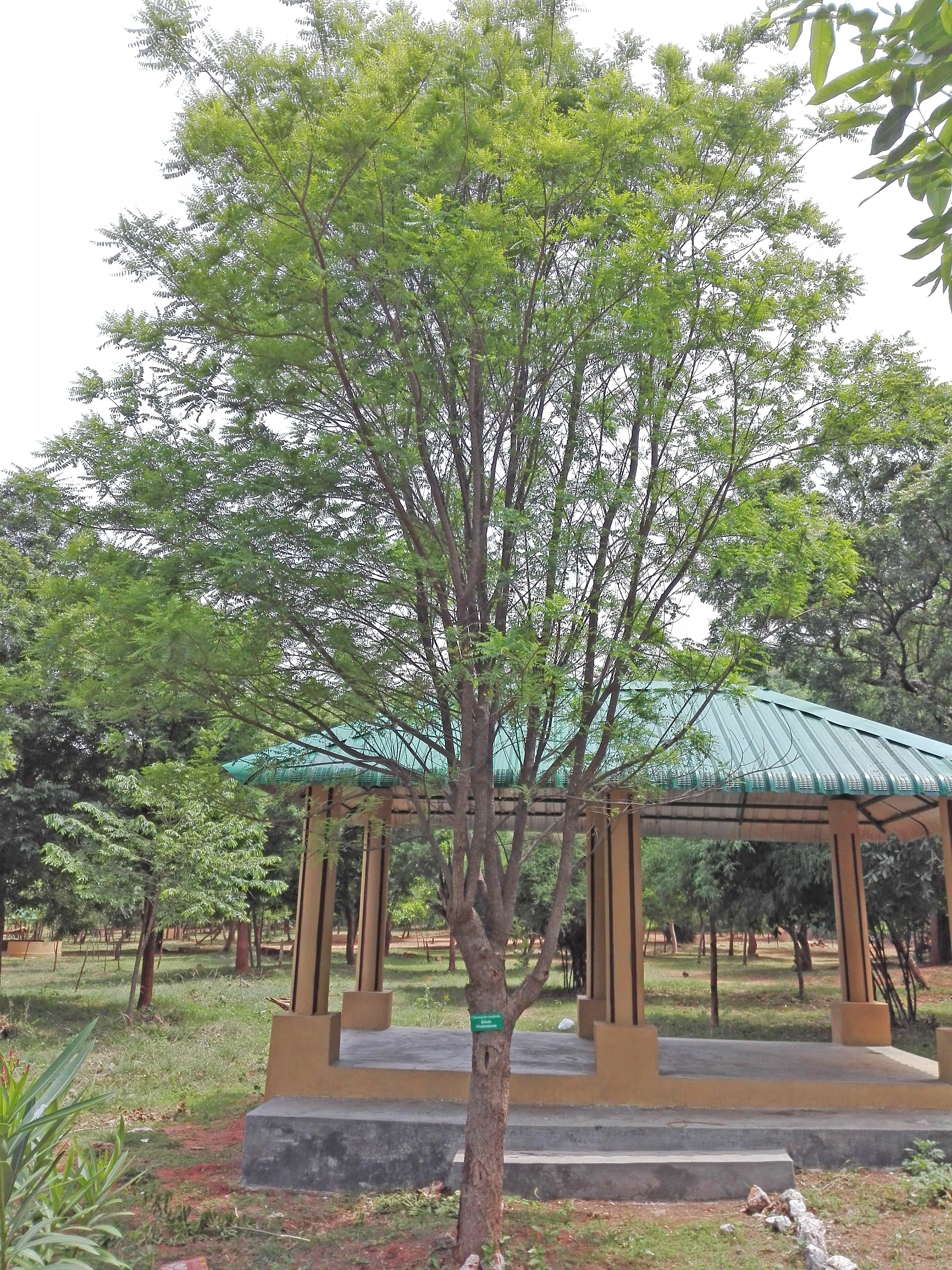 East Indian satinwood (Chloroxylon swietenia) at Kambalakonda Wildlife Sanctuary in Visakhapatnam (KEP/SA/18/02)